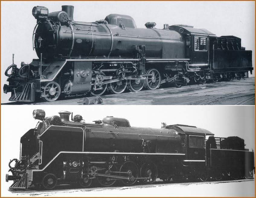 Mikado DX50 steam locomotive and Pacific CX50 steam locomotive from Factory (Original steam locomotive had ABC type coupler)